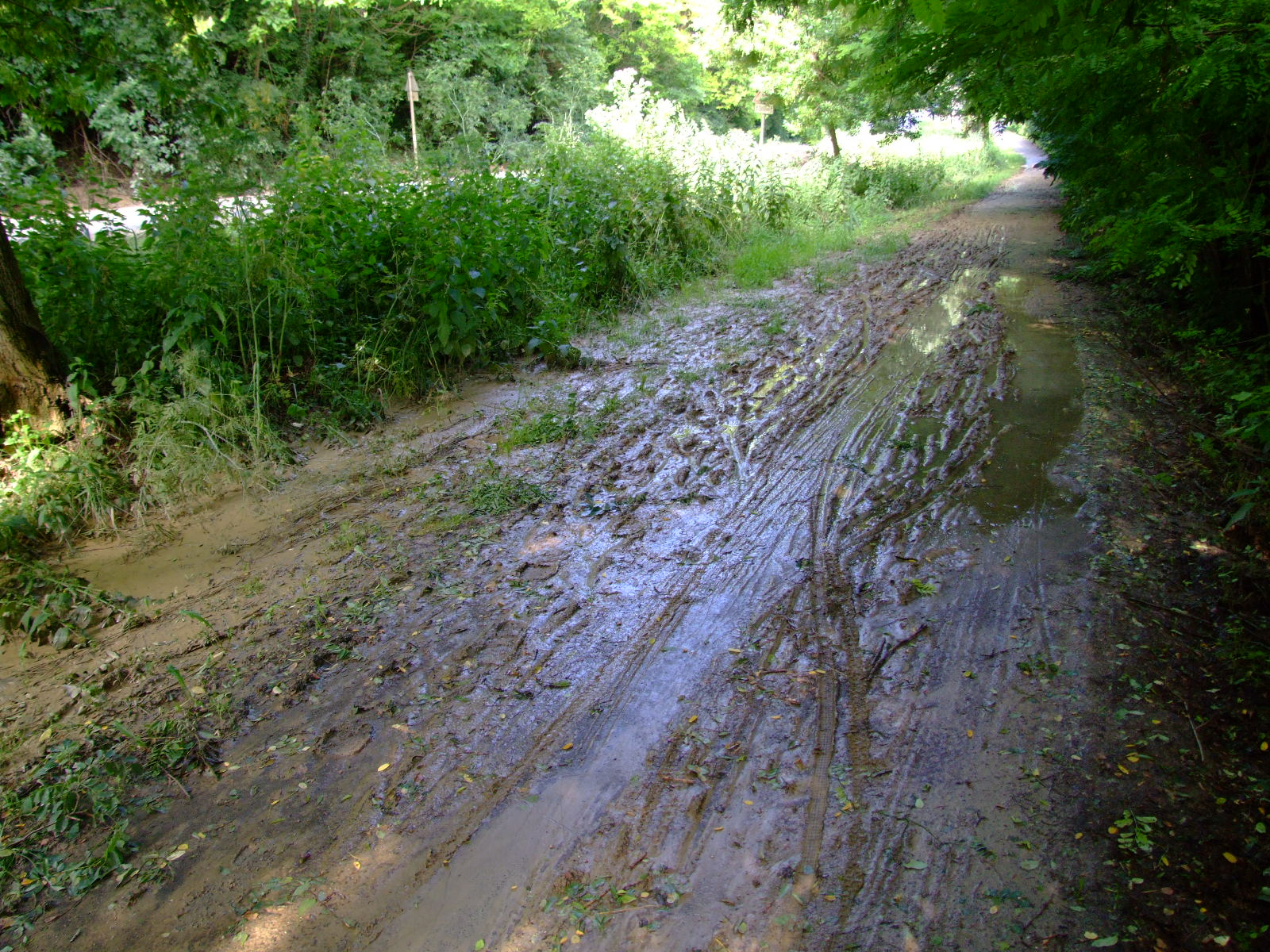 Muddy area of the cycle route around Lake Fertő between Fertőboz and Sopron-Balf.